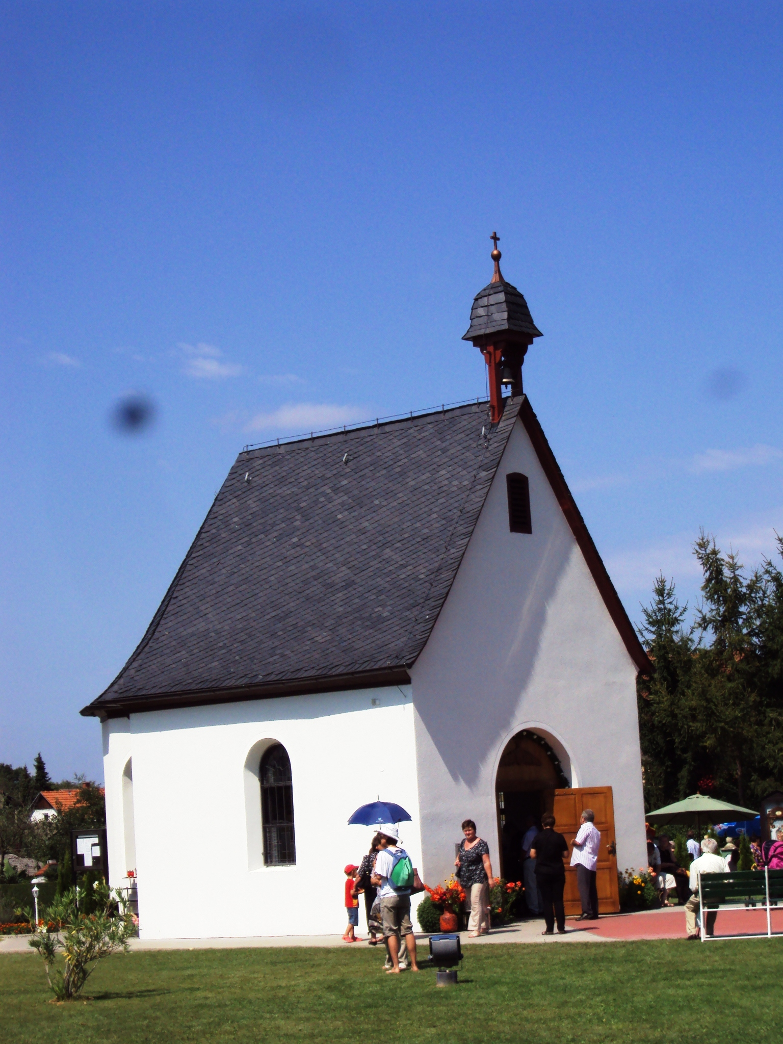 Schoenstatt shrine in Mala Subotica, Croatia